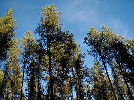 US Forest Service photo of Lodgepole Pines in Montana